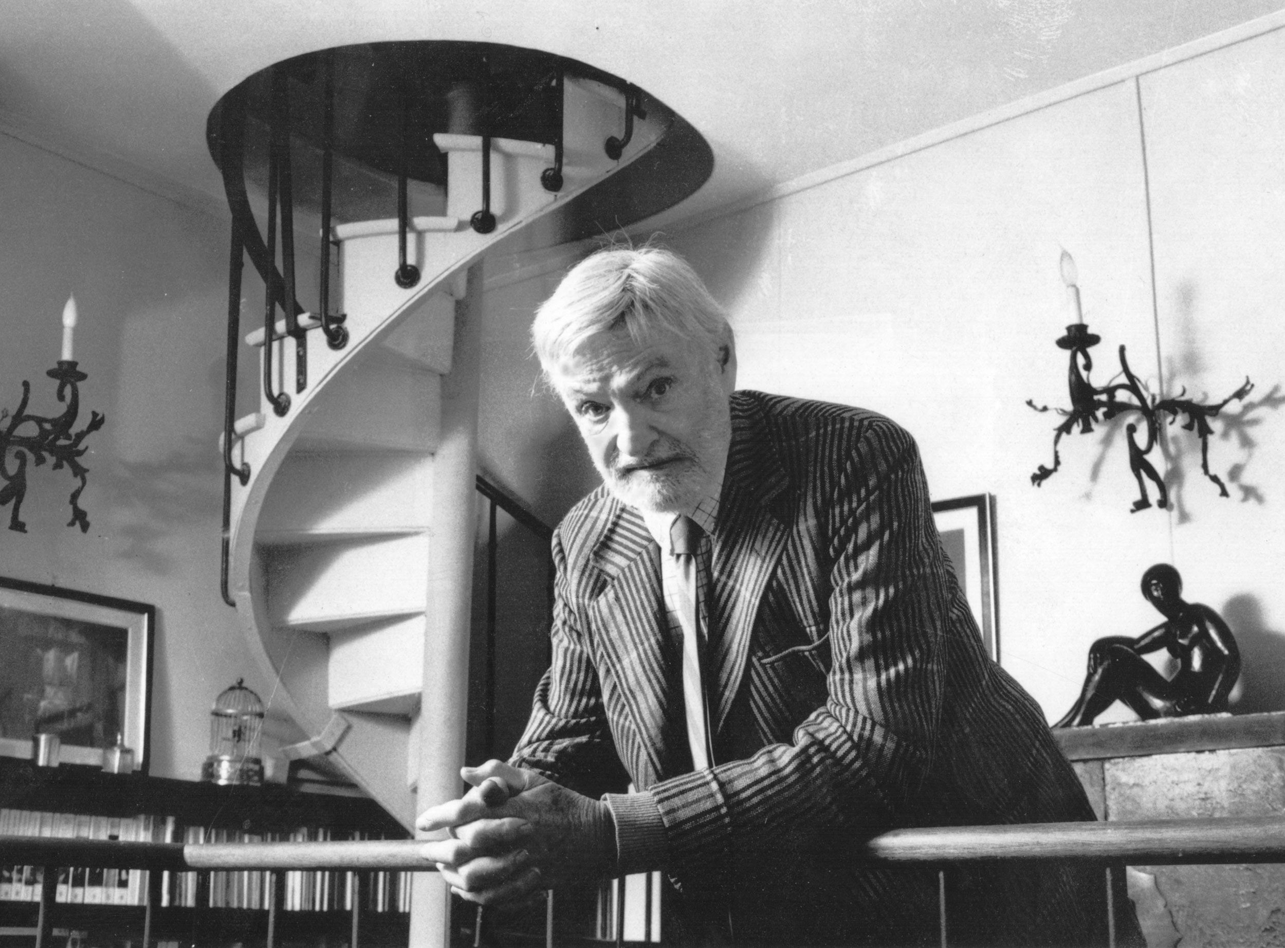 Portrait of Jean-Pierre Giraudoux, son of French author Jean Giraudoux